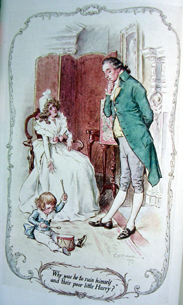 in ch. 2 of Sense and Sensibility (Jane Austen Novel) Mrs Dashwood asks why was he to ruin himself and their poor little Harry?